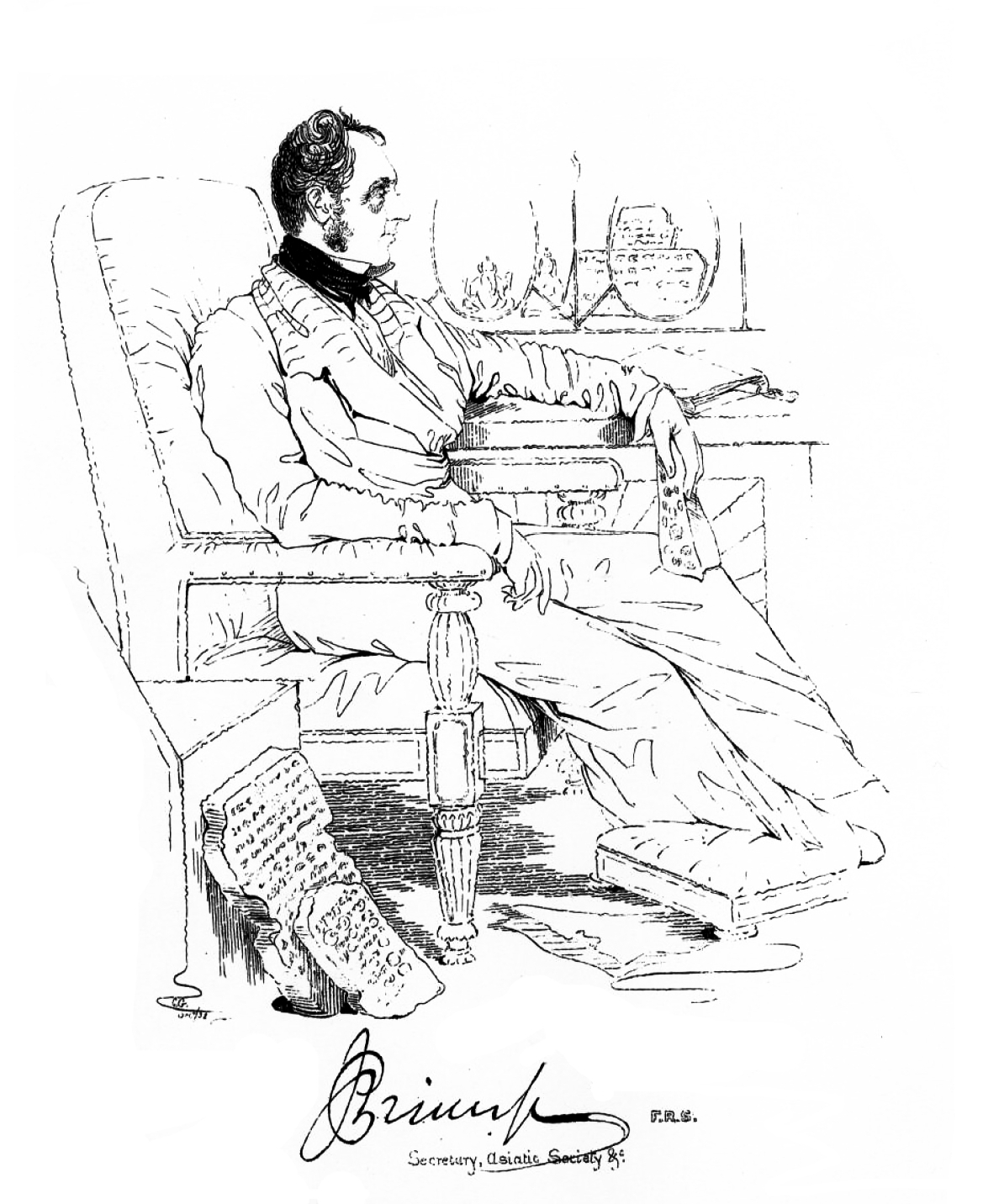 James Prinsep portrait made by Colesworthy Grant around 1838 in Calcutta